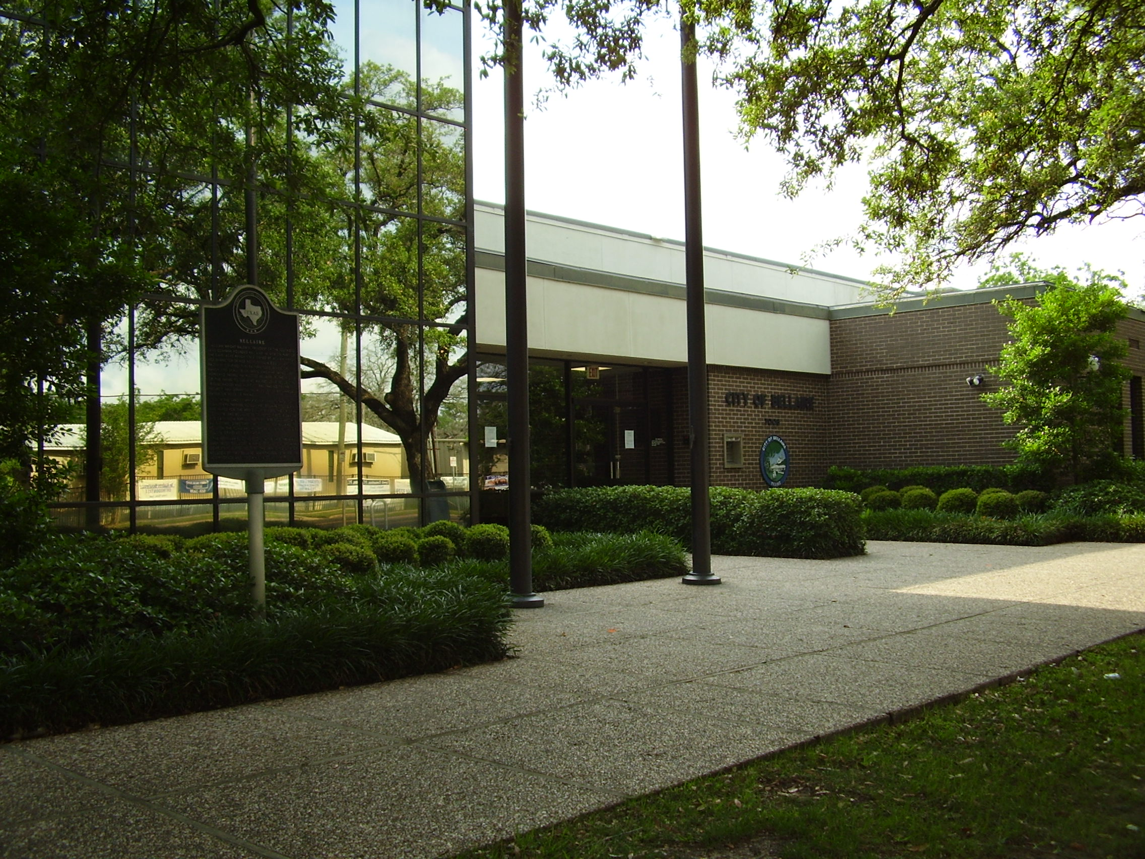 Bellaire, Texas administration building